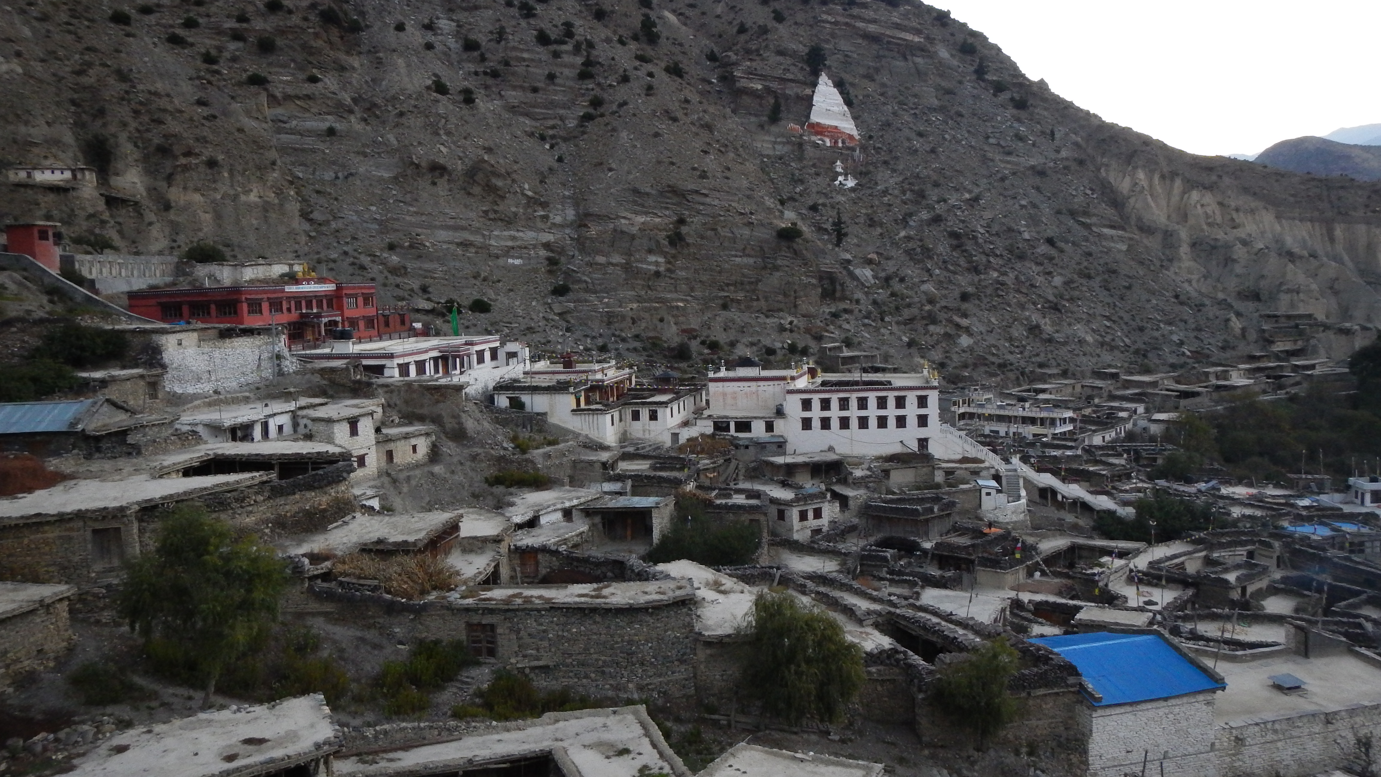 The village of Marpha in Nepal